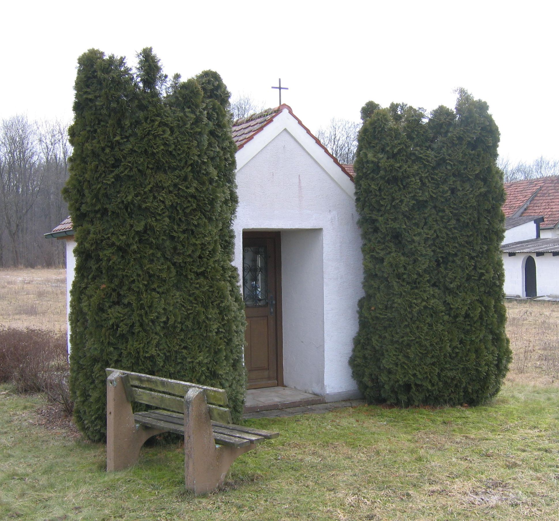 Kapelle von Rothheim bei Bruck